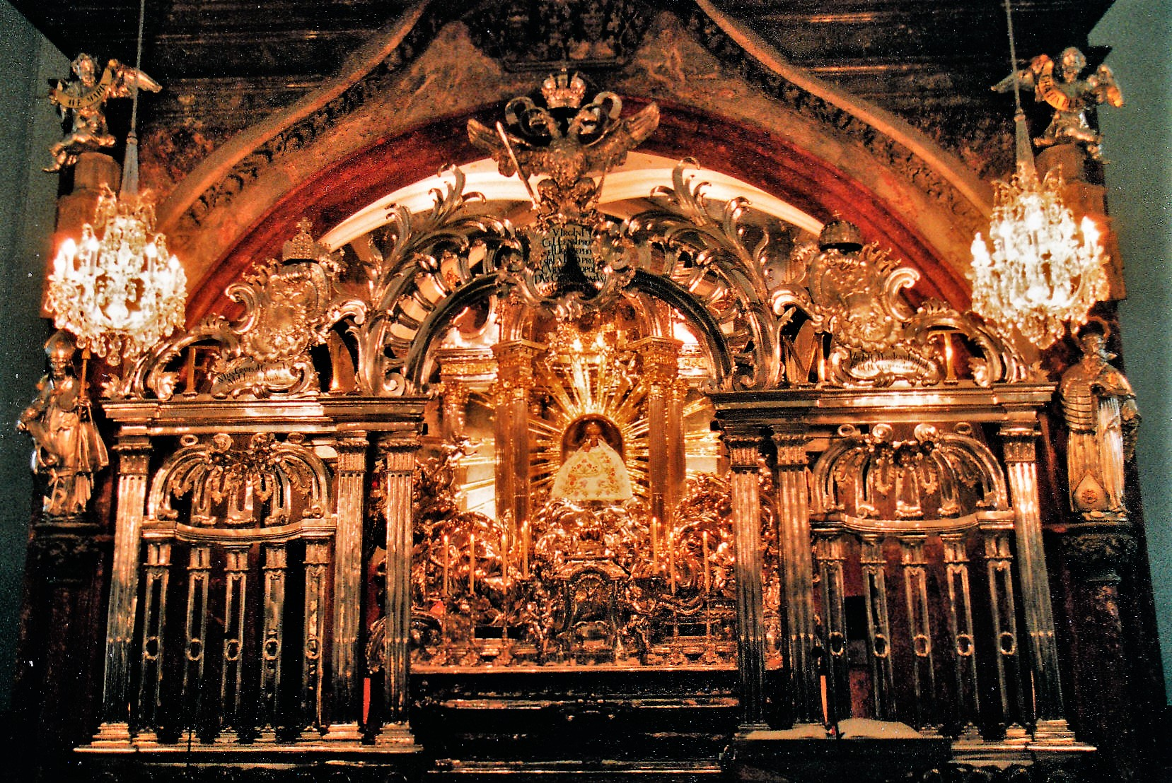 Gnadenkapelle in the Mariazell Basilica